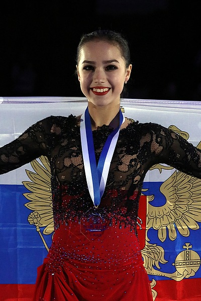 Alina Zagitova at the Grand Prix of Finland 2018 - Awarding ceremony